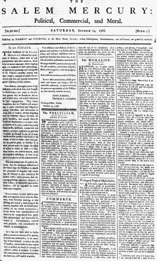 Salem Mercury.; Date: 10-14-1786; Issue: 1; Page: [1]; Location: Salem, Massachusetts Further information: American Antiquarian Society. Catalog.